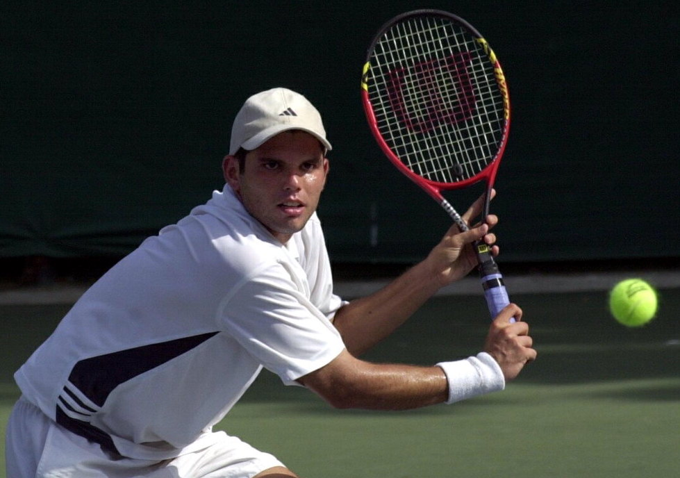 For daily. Attn. sports desk. 2-6-03 (Mumbai)-- Mustafa Ghouse of India in action against Hayato Furukawa of of Japan in first round of the ITF Satellite tournament in Mumbai on Monday. Photo: Vivek Bendre. (Digital image)